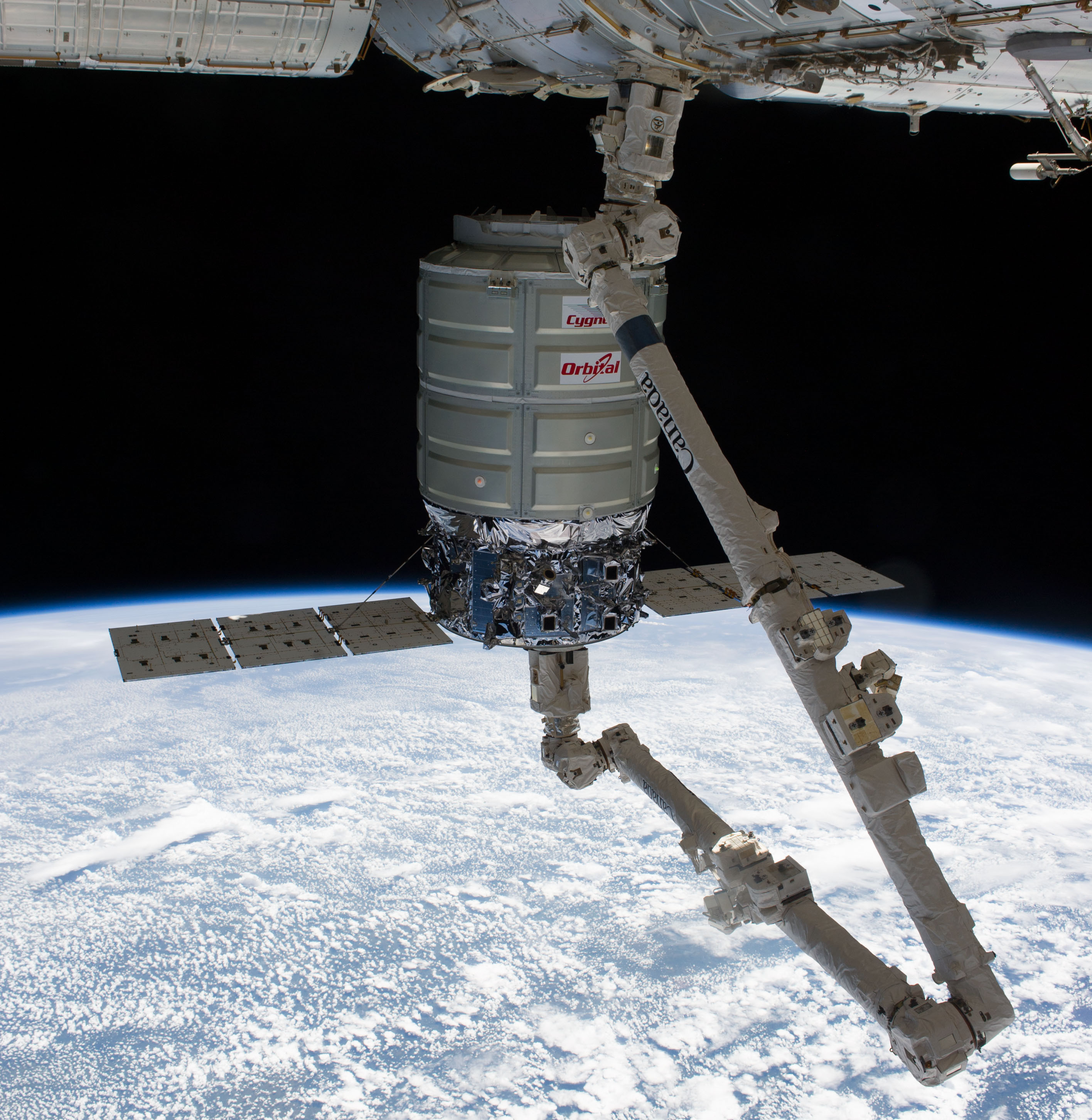 ISS038-E-050734 (18 Feb. 2014) --- The International Space Station's Canadarm2 unberths the Orbital Sciences Corporation's Cygnus spacecraft after several weeks at the space station. NASA astronaut Mike Hopkins, with assistance from Japan Aerospace Exploration Agency astronaut Koichi Wakata, both Expedition 38 flight engineers, used the station's 57-foot Canadarm2 robotic arm to detach Cygnus from the Earth-facing port of the Harmony node at 5:15 a.m. (EST) on Feb. 18, 2014. While Wakata monitored data and kept in contact with the team at Houston's Mission Control Center, Hopkins released Cygnus from the robotic arm at 6:41 a.m. Earth's horizon and the blackness of space provide the backdrop for the scene.